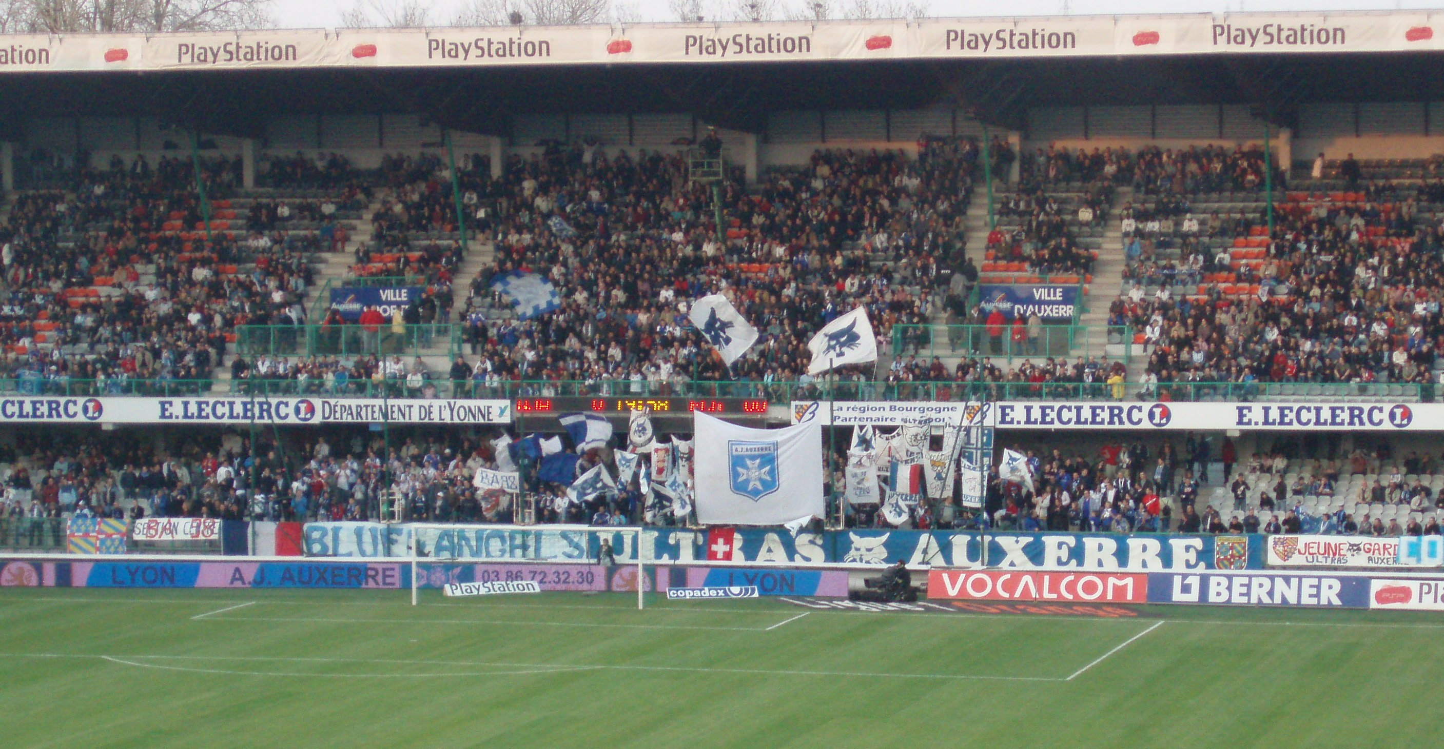 Fans of the AJ Auxerre